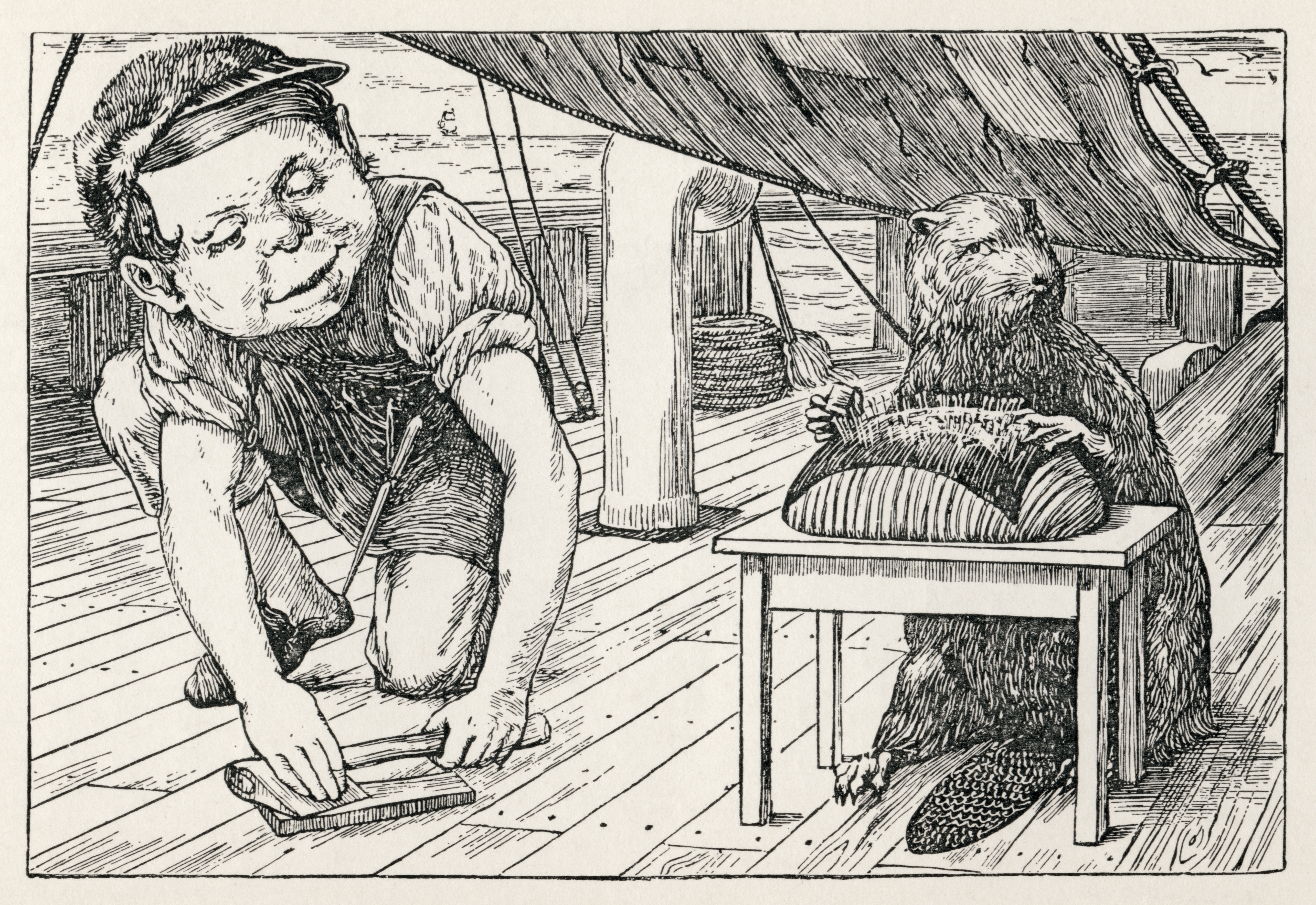 Third of Henry Holiday's original ilustrations to "The Hunting of the Snark" by Lewis Carroll. This illustrates the end section of Fit the First: The Landing. The Butcher has said he can only butcher beavers, and so: Yet still, ever after that sorrowful day, Whenever the Butcher was by, The Beaver kept looking the opposite way, And appeared unaccountably shy.